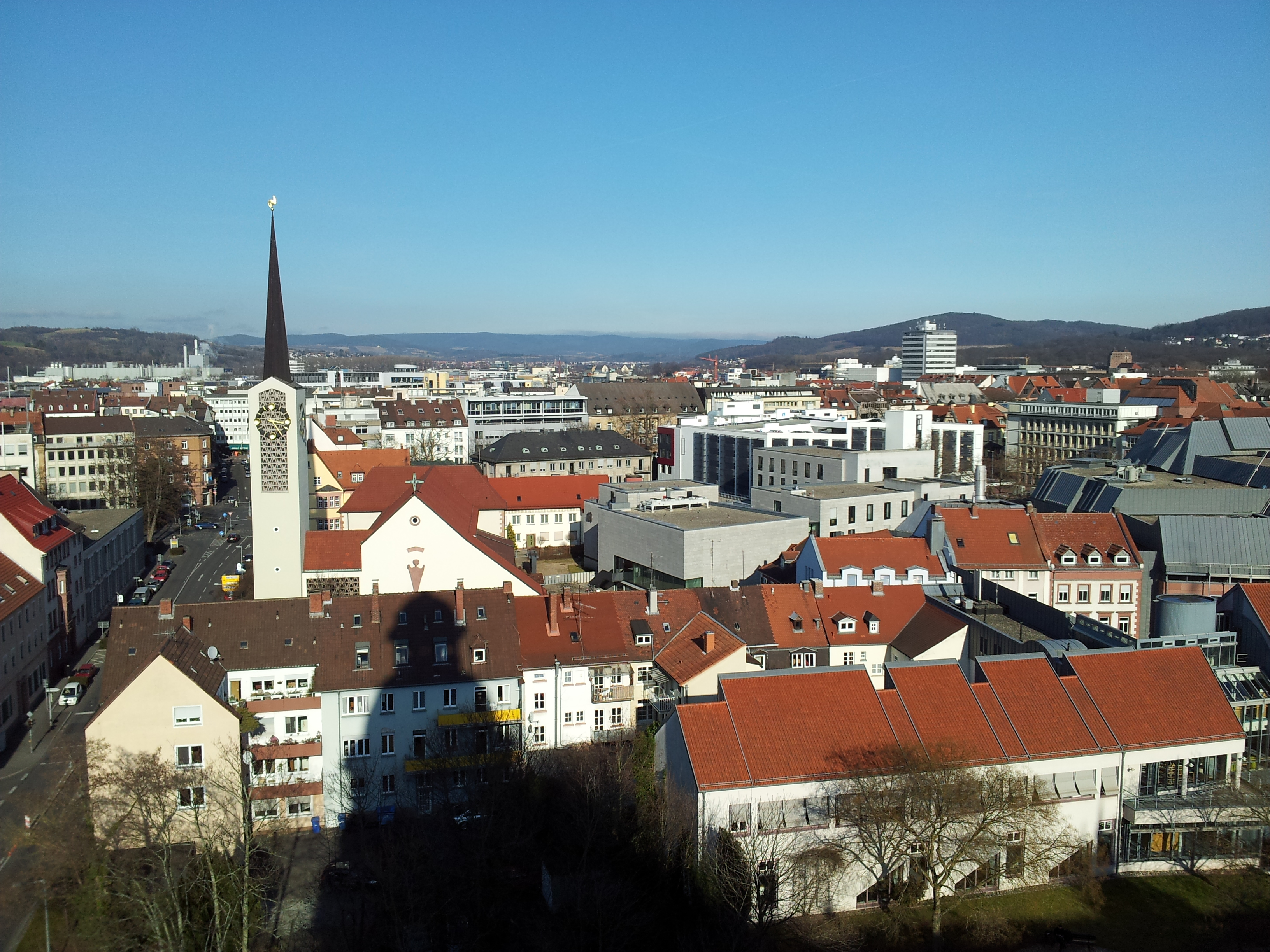 View from a tower of the castle on Aschaffenburg and the church St. Agatha